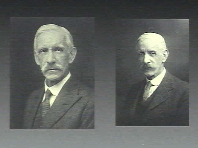 Sir Frederick Gowland Hopkins. Photograph by J. Palmer Clarke. 1 photograph Iconographic Collections Keywords: portrait photographs